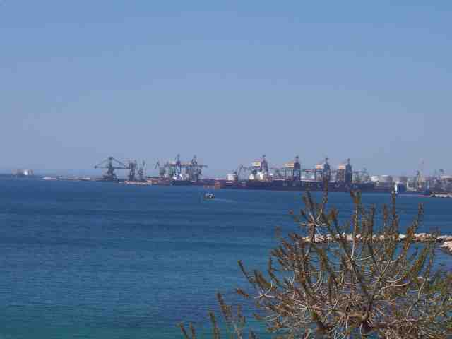 Desciption: harbour (Taranto) Photographer: --Asia Date: 14.4.2006